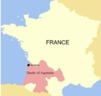 Cussac in the Duchy of Aquitaine